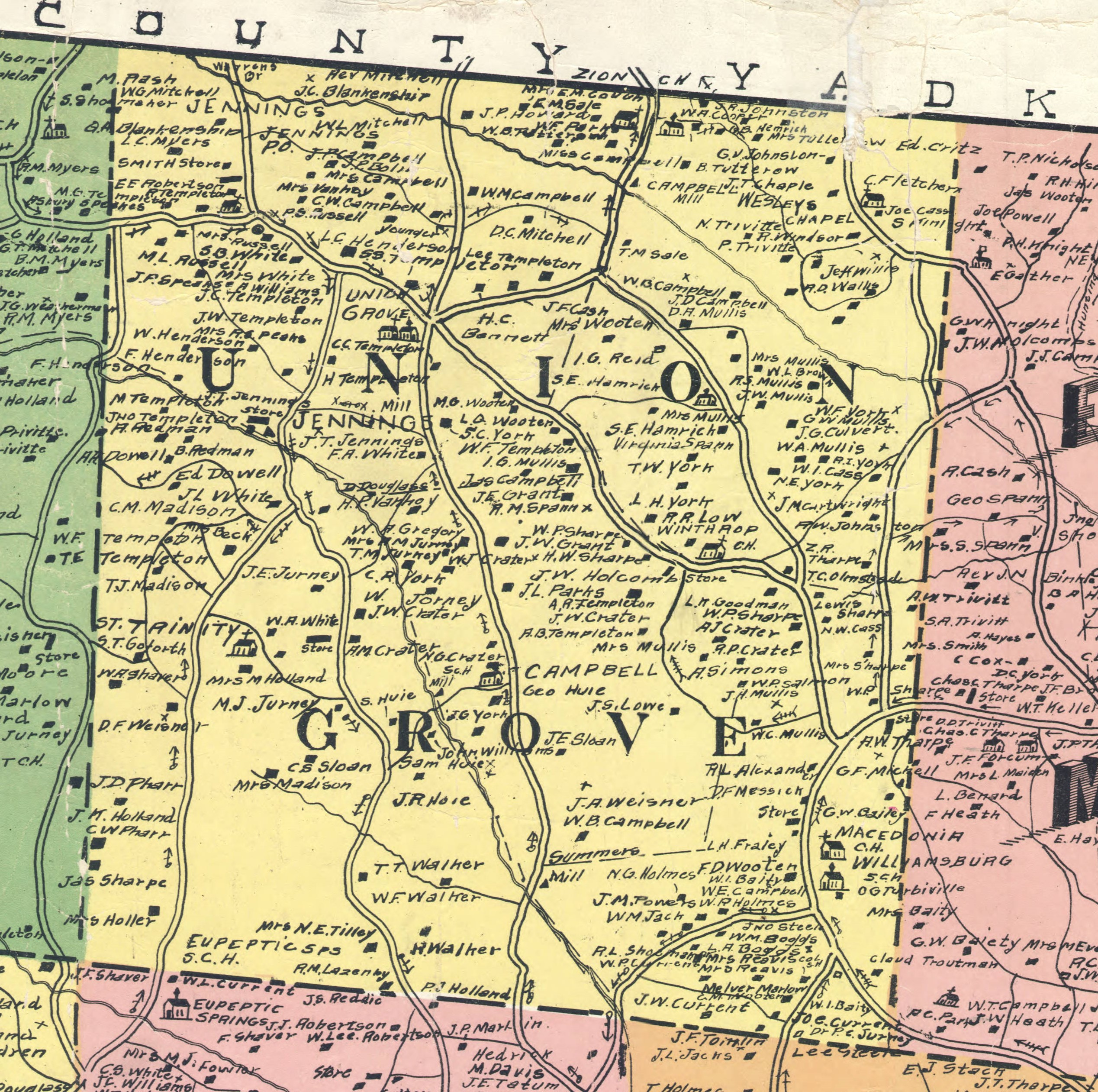 Union Grove Township in 1917, showing families, roads, churches, schools, and other features as they existed in 1917.